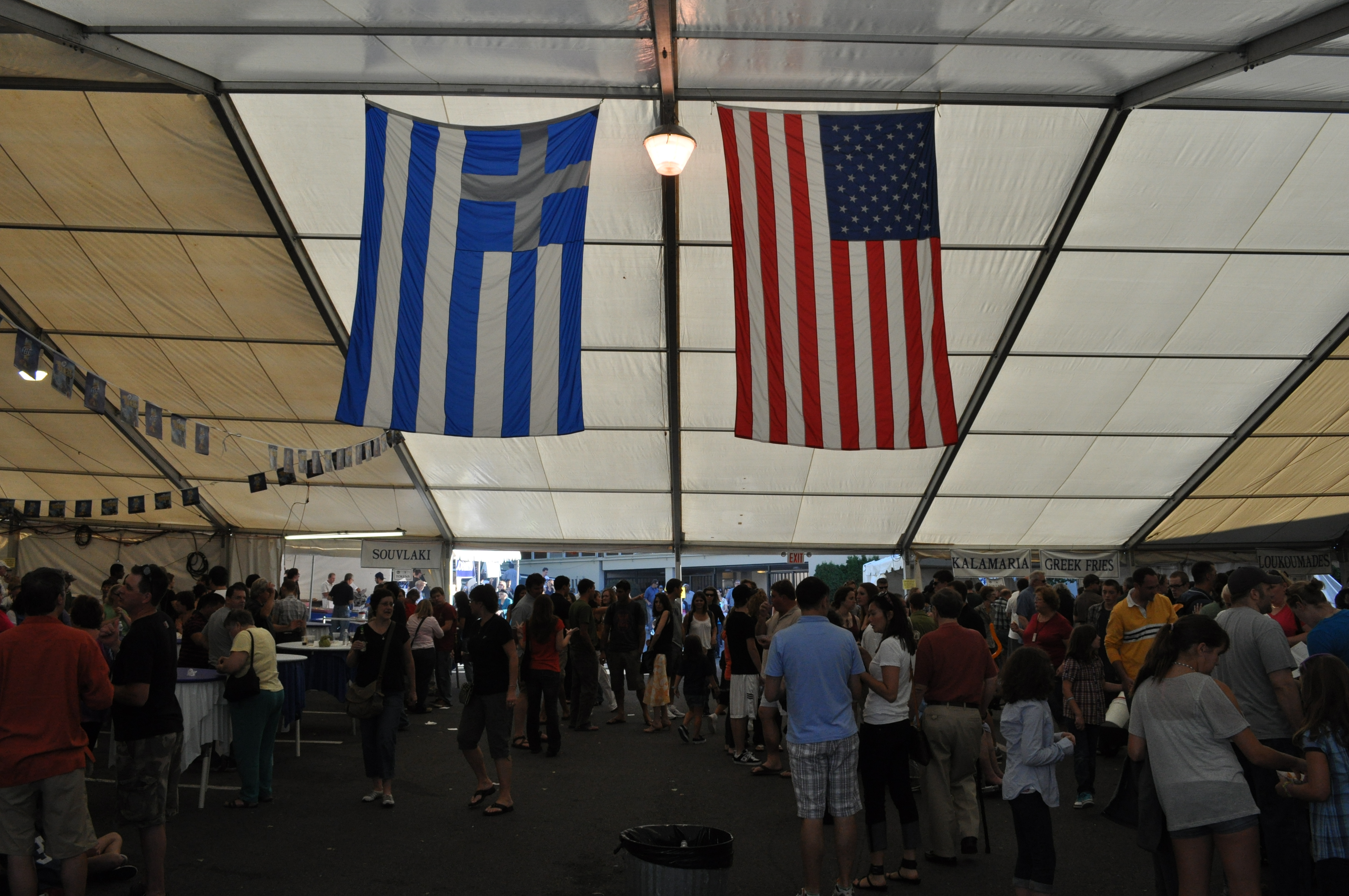 Greek and American flags, St. Demetrios Greek Festival, St. Demetrios Orthodox Church, Seattle, Washington.